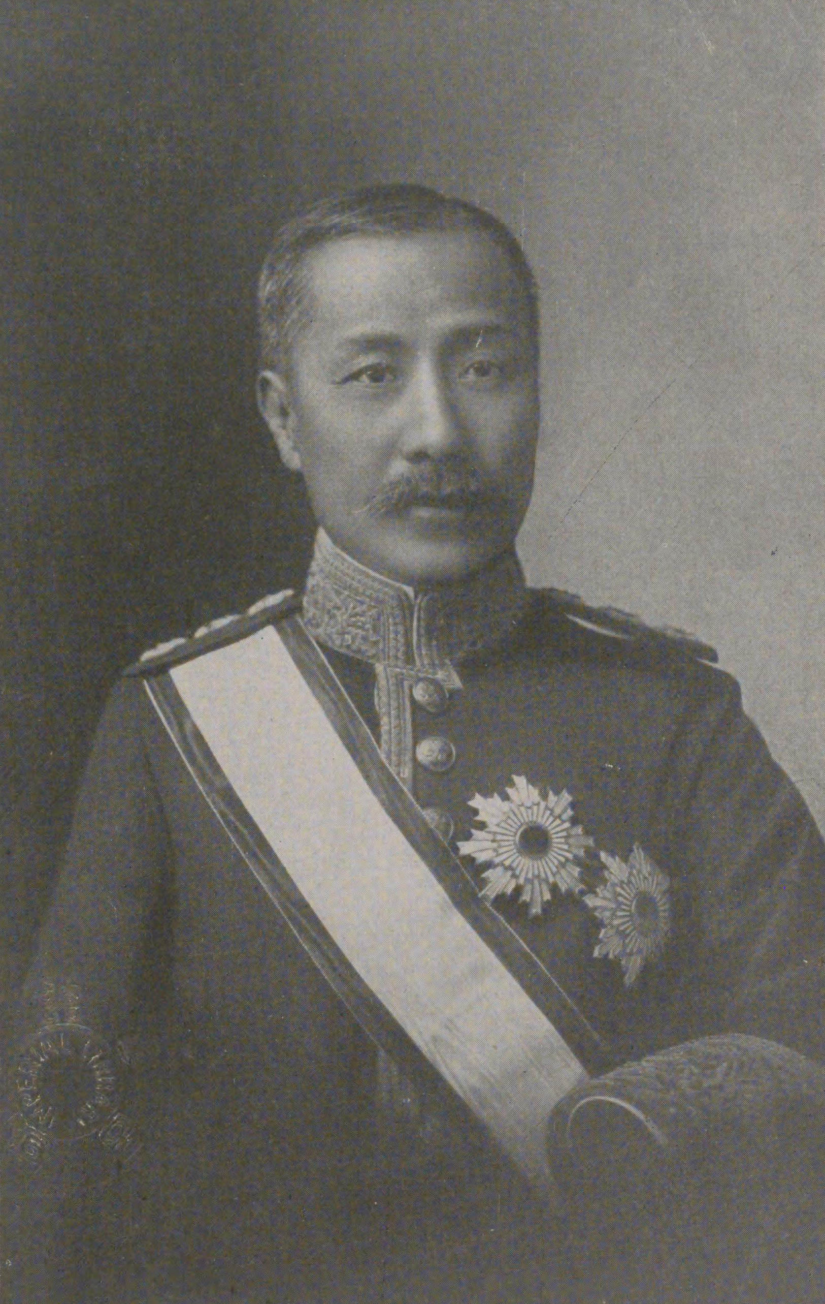 Song Byeong-jun Portrait